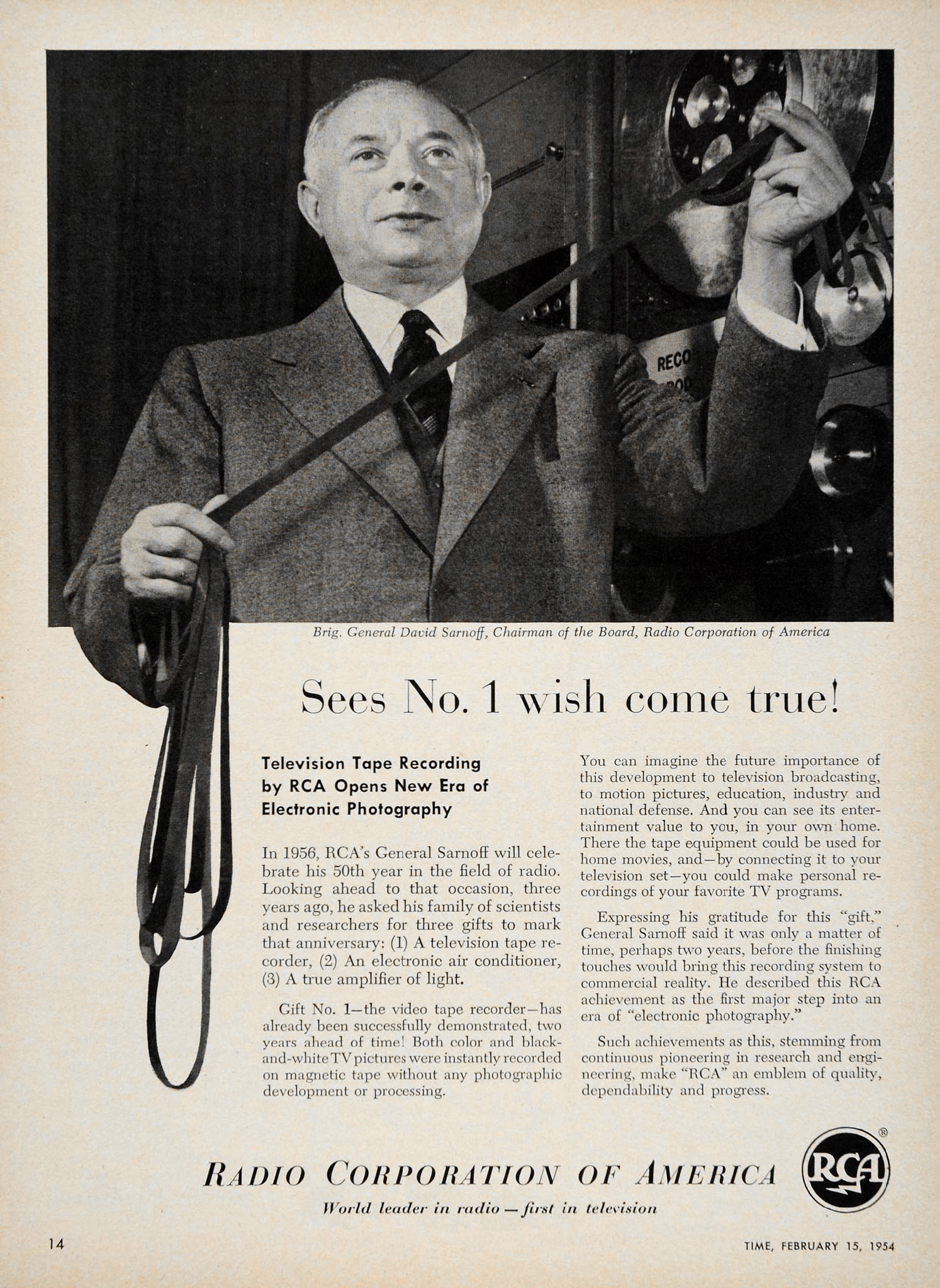 Time magazine ad from RCA depicting General David Sarnoff, Chairman of the Board, with the first videotape and recorder, 1954.